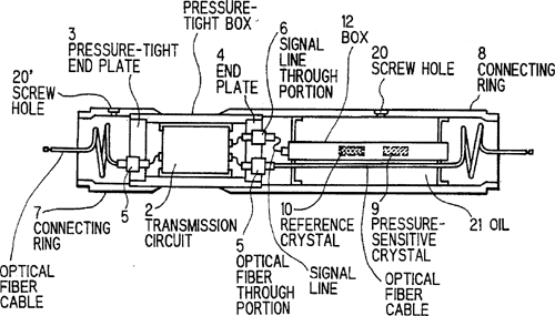 Diagram of a submarine cable repeater